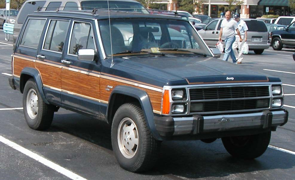 1986-1990 Jeep Wagoneer Limited XJ photographed in USA.